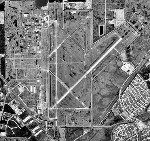 USGS orthophoto of Ellington International Airport, also known as Ellington Field Joint Reserve Base in Texas, United States